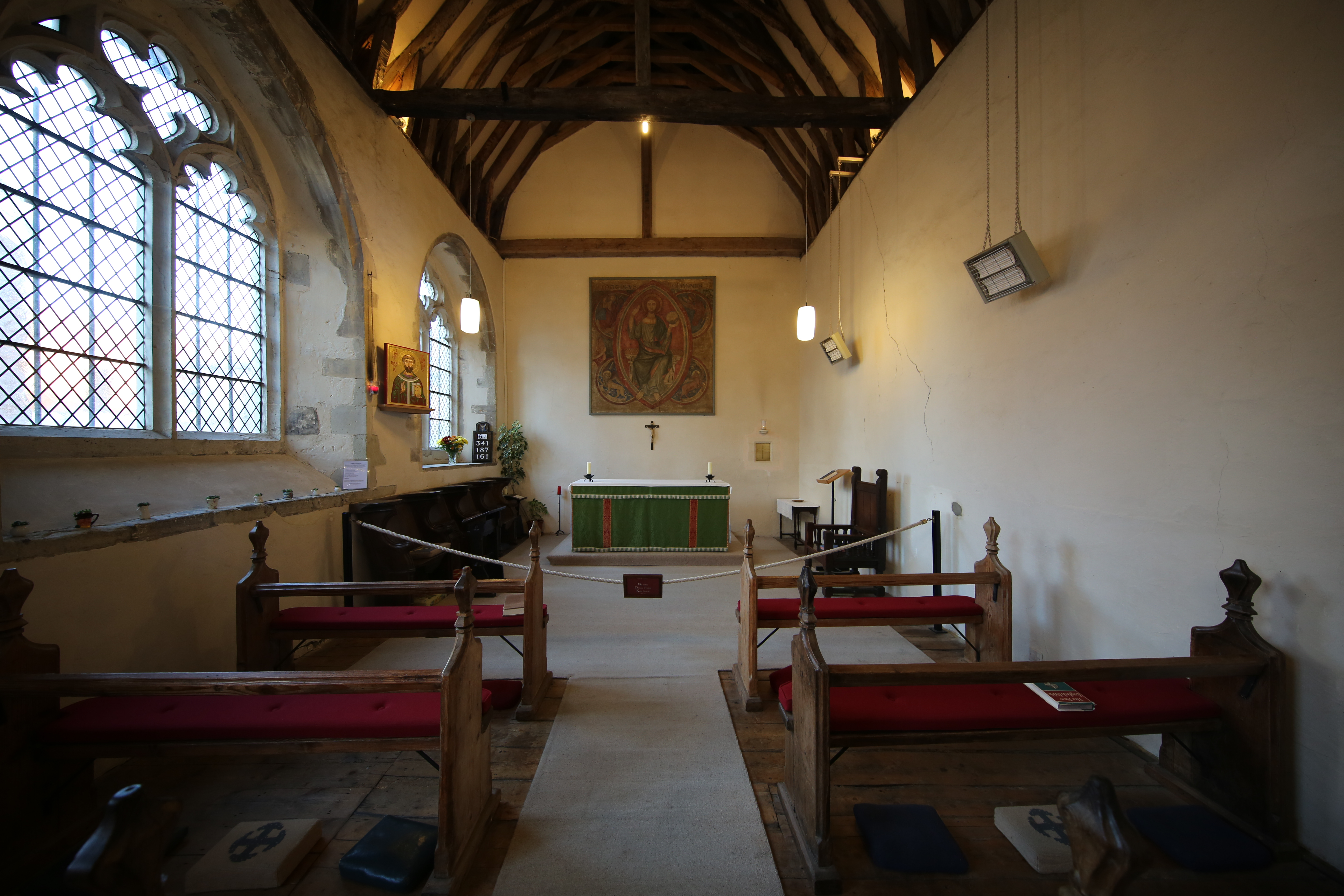 photo of the chapel within Eastbridge Hospital of St Thomas the Martyr, Canterbury